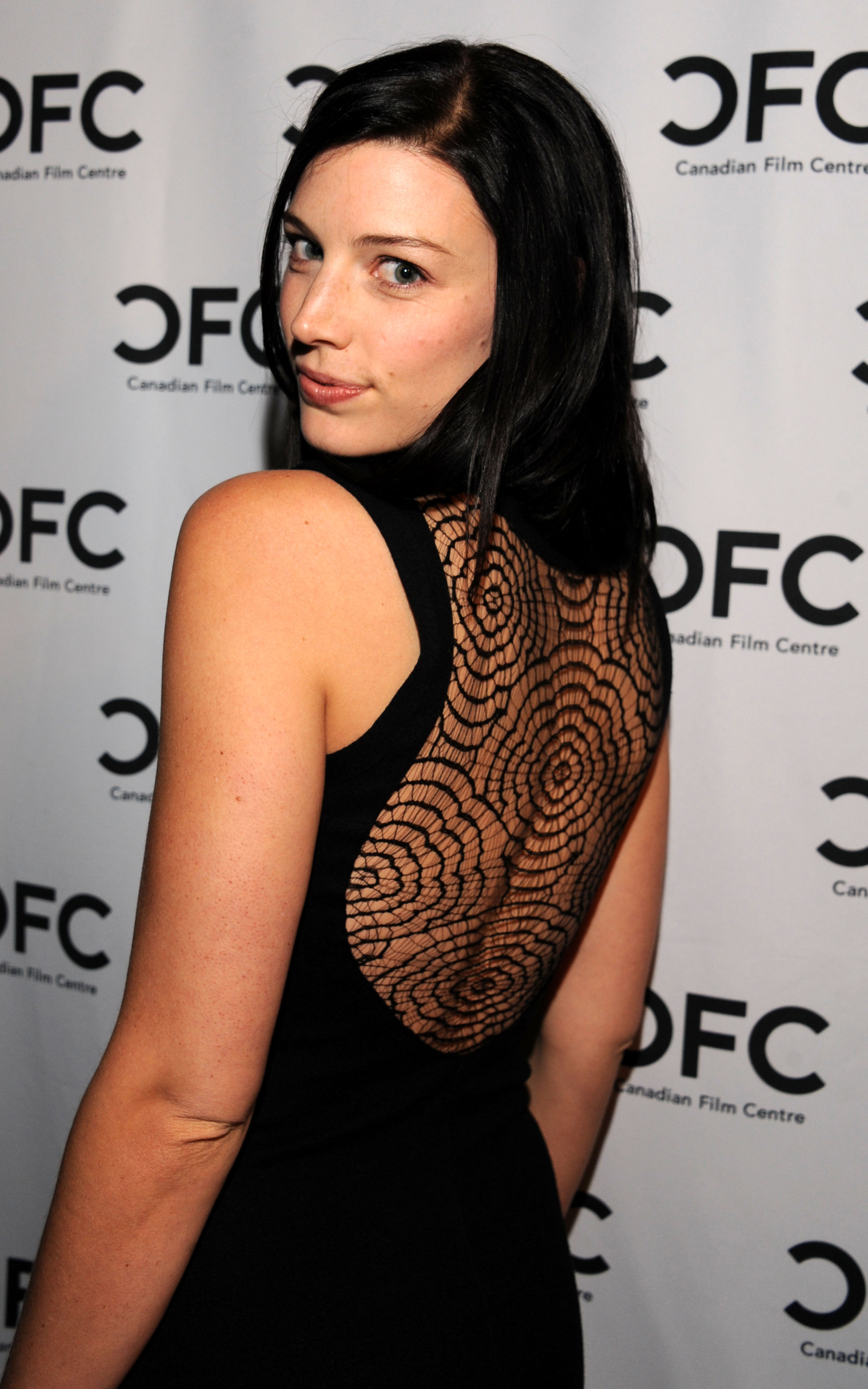 Jessica Paré at a Canadian Film Centre & Variety-hosted reception for the Telefilm Canada Features Comedy Lab. To learn more about the Canadian Film Centre, please visit: Photo by Mark Sullivan